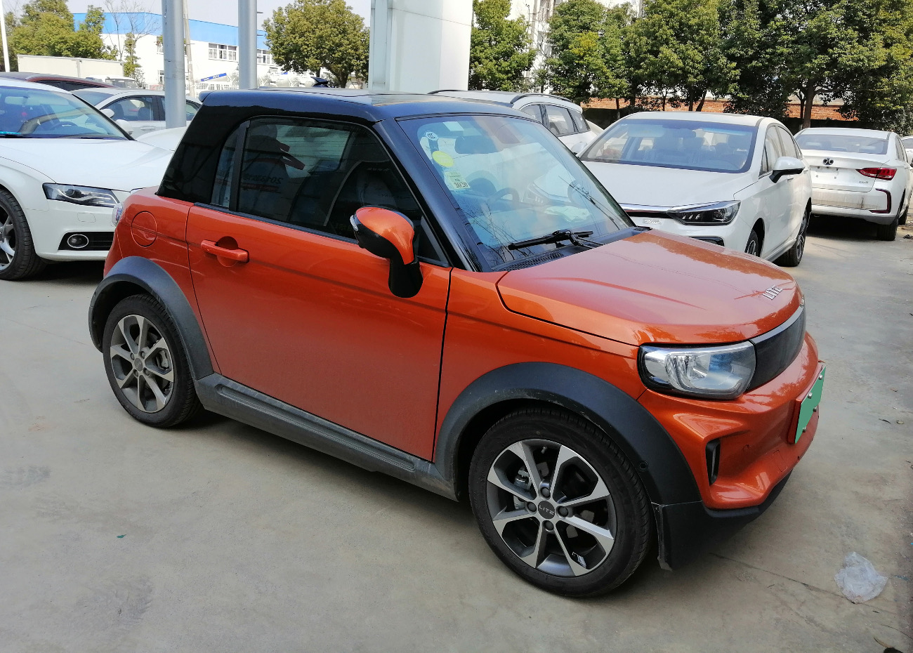 Arcfox Lite photographed in Hefei, Anhui province, China.